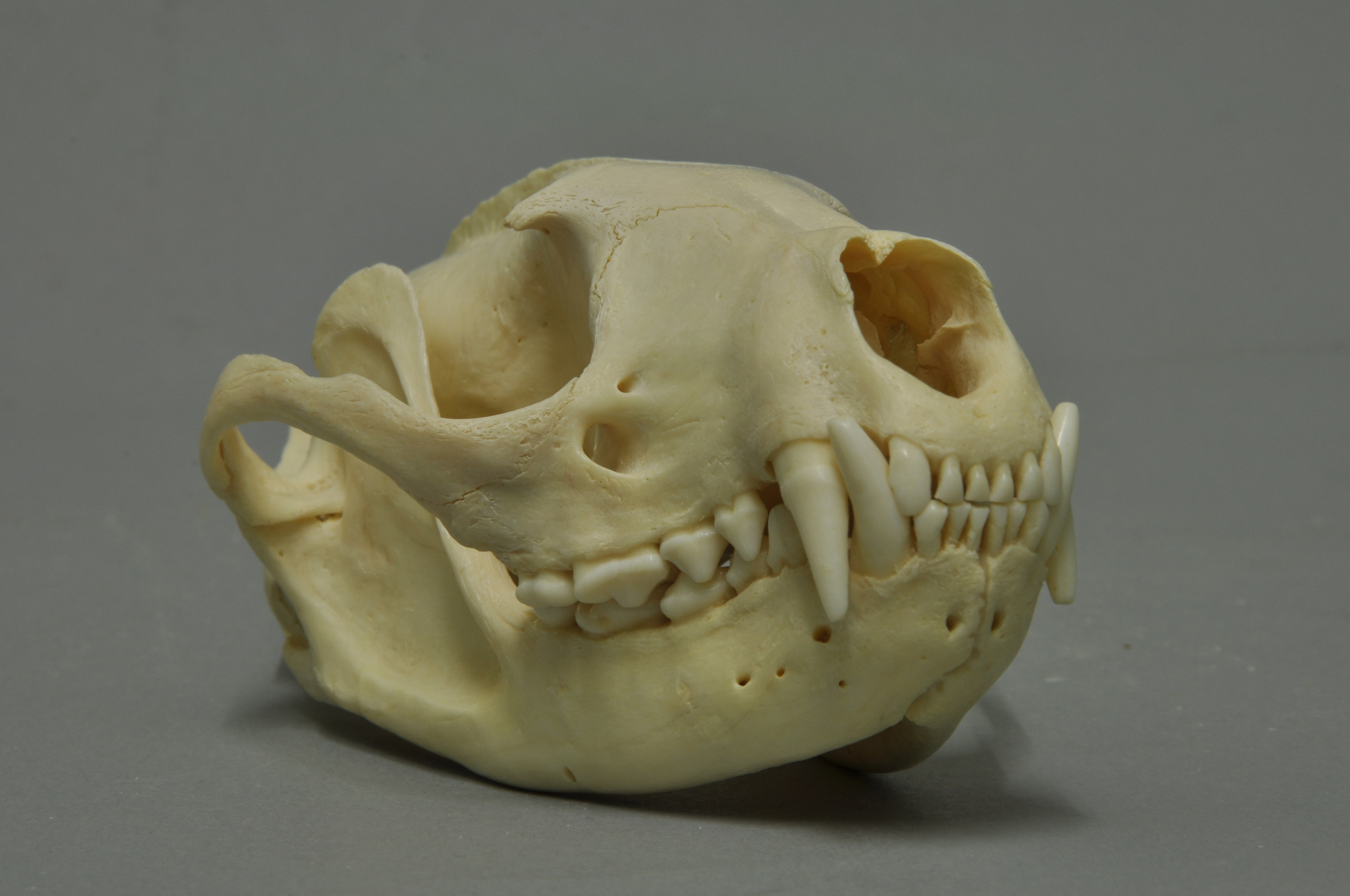 Masked palm civet Paguma larvata, skull, Coll. Museum Wiesbaden